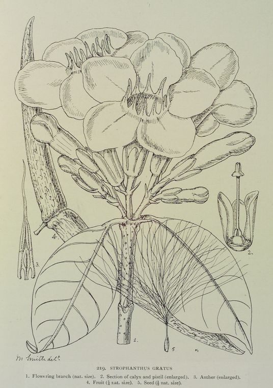 Strophanthus gratus. 1. Flowering branch (nat. size). ; 2. Section of calyx and pistil (enlarged). ; 3. Anther (enlarged). ; 4. Fruit (1/4 nat. size). ; 5. Seed (1/2 nat. size)